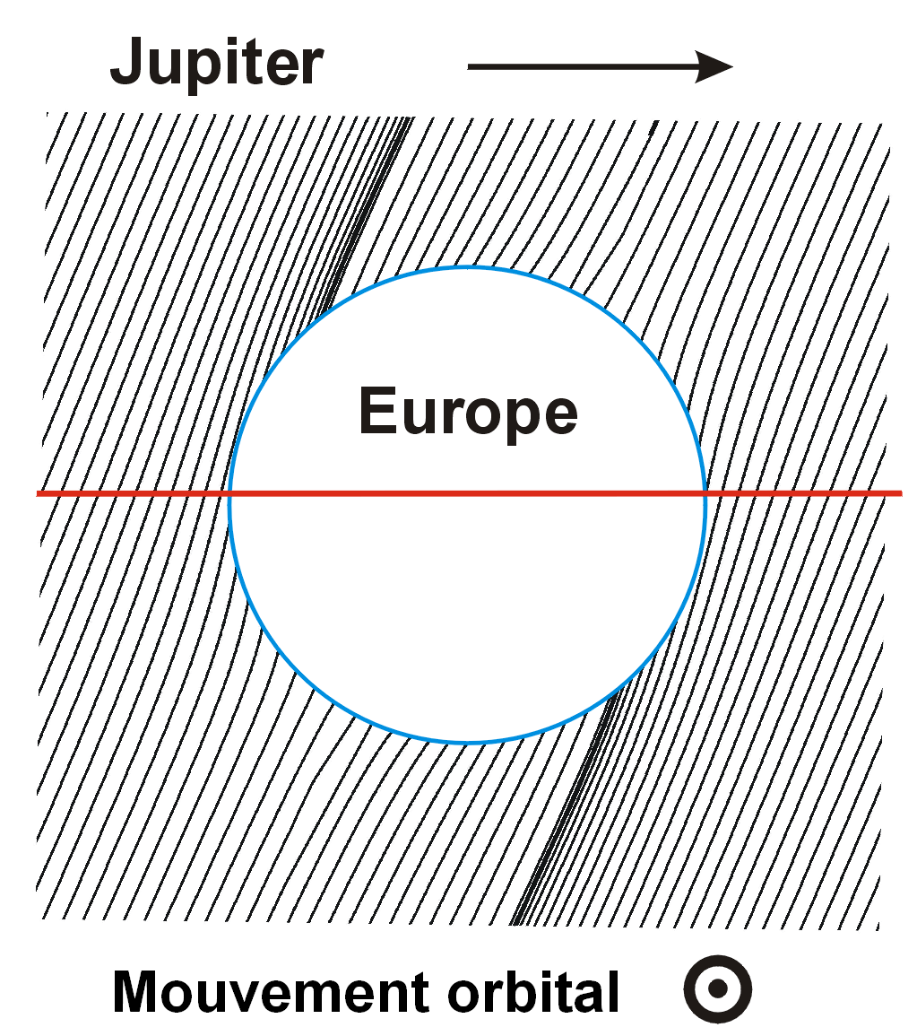 The image depicts magnetic field around Jovian moon Europa. The field consists of the Jovian stationary field, Jovian varying field and Europa induced field. The bending of the field lines around Europa is evident, indicating an existence of an electrically conducting layer in the interior of the moon. The field lines shown in the image were calculated based on the magnetic field data available from the scientific literature.[1][2]. The red line shows a trajectory of the Galileo spacecraft during a typical flyby (E4 or E14). This image was created for the Europa (moon) article. ↑ a b Zimmer, C.; Khurana, K. K. (2000). "Subsurface Oceans on Europa and Callisto: Constraints from Galileo Magnetometer Observations". Icarus 147: 329–347. ↑ a b Kilveson, M.G.; Khurana, K.K.;Stevenson, D.J. (1999). "Europa and Callisto: Induced and intrinsic fields in a periodically varying plasma environment". J. of Geophys. Res. 104: 4609-4625.